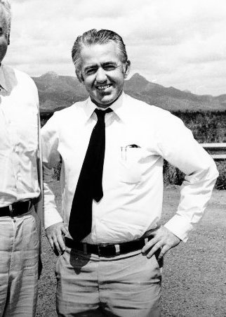 Prime Minister Edward Gough Whitlam with Alderman Eamon Lindsay at Ross River Dam in 1977. Eamon Lindsay, born in Tully, was a solicitor and a City of Townsville Councilor before entering federal politics. In 1983 he was elected to the Australian House of Representatives as the Member for Herbert.